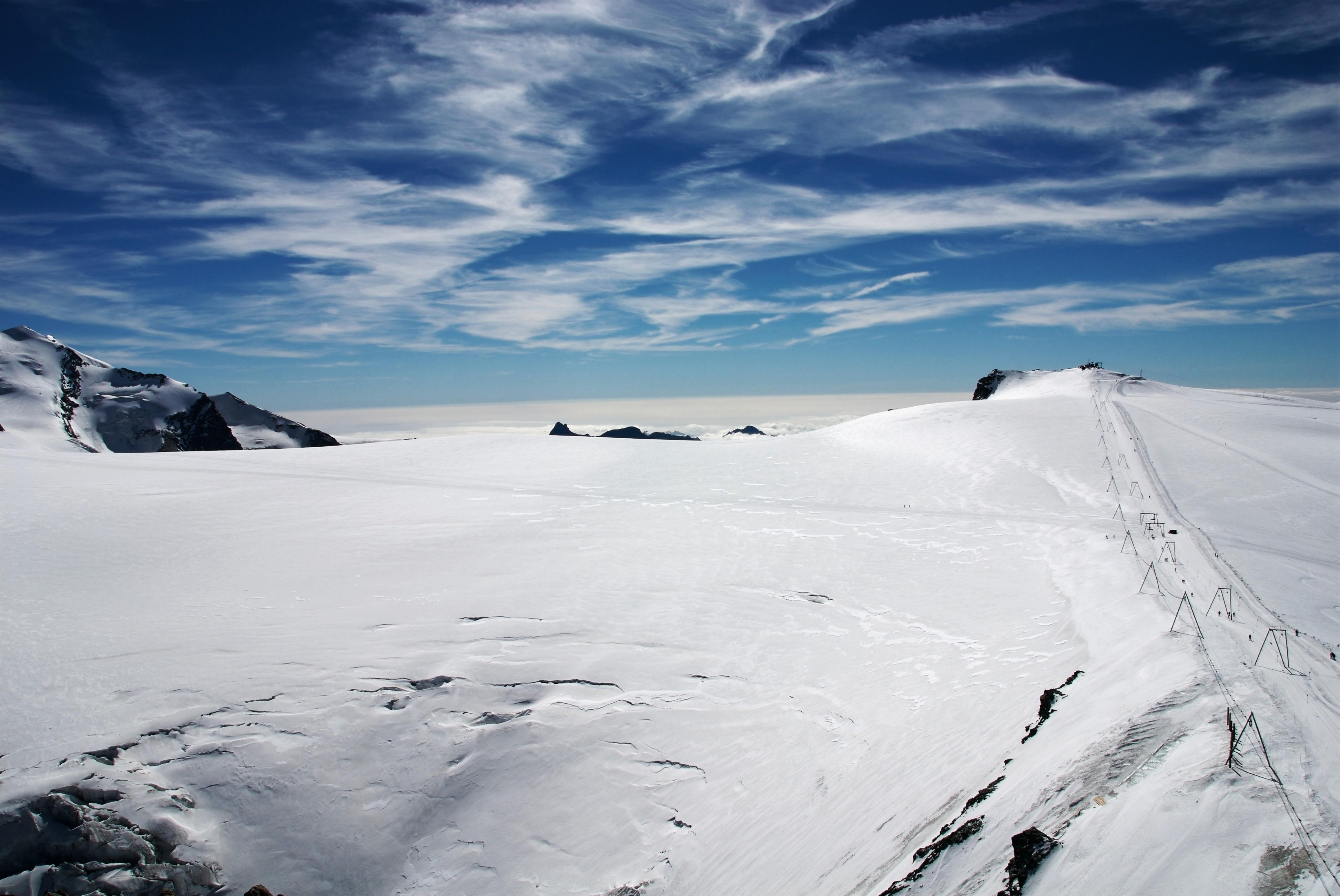 Ski area on the Breithorn plateau at nearly 4000 metres above Zermatt.